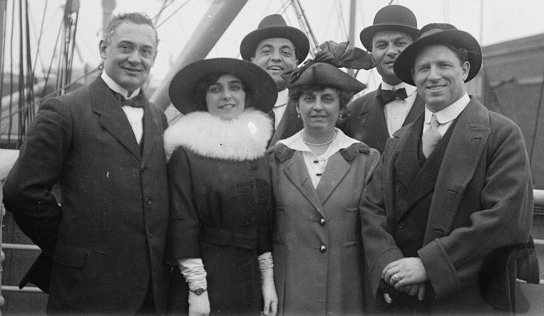 From left to right : Vincenzo Reschiglian (baritone), Rosina Galli (dancer and choreographer), Luca Botta (tenor), Galli's Mother, Unknown, Giovanni Martinelli (tenor) - Original image (see source) cropped